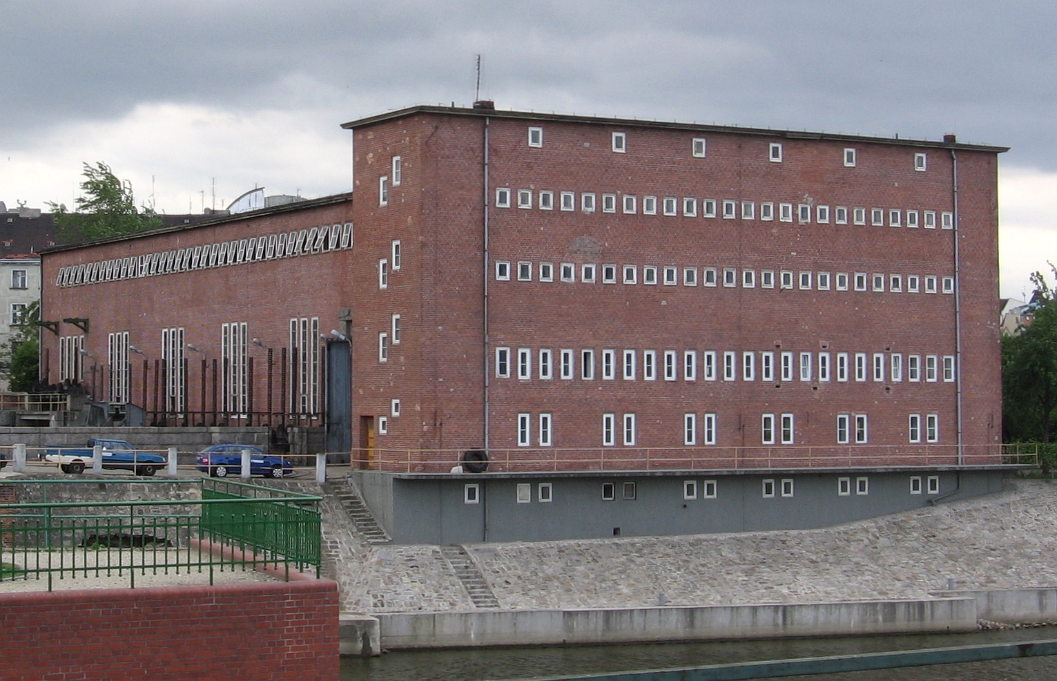 Southern hydroelectric plant on Odra River in Wrocław, Poland